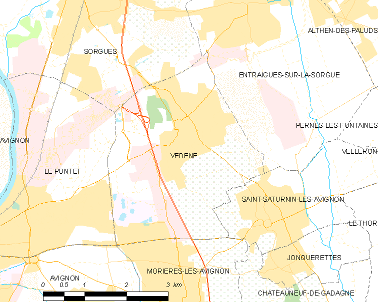 Map of French municipality Vedène